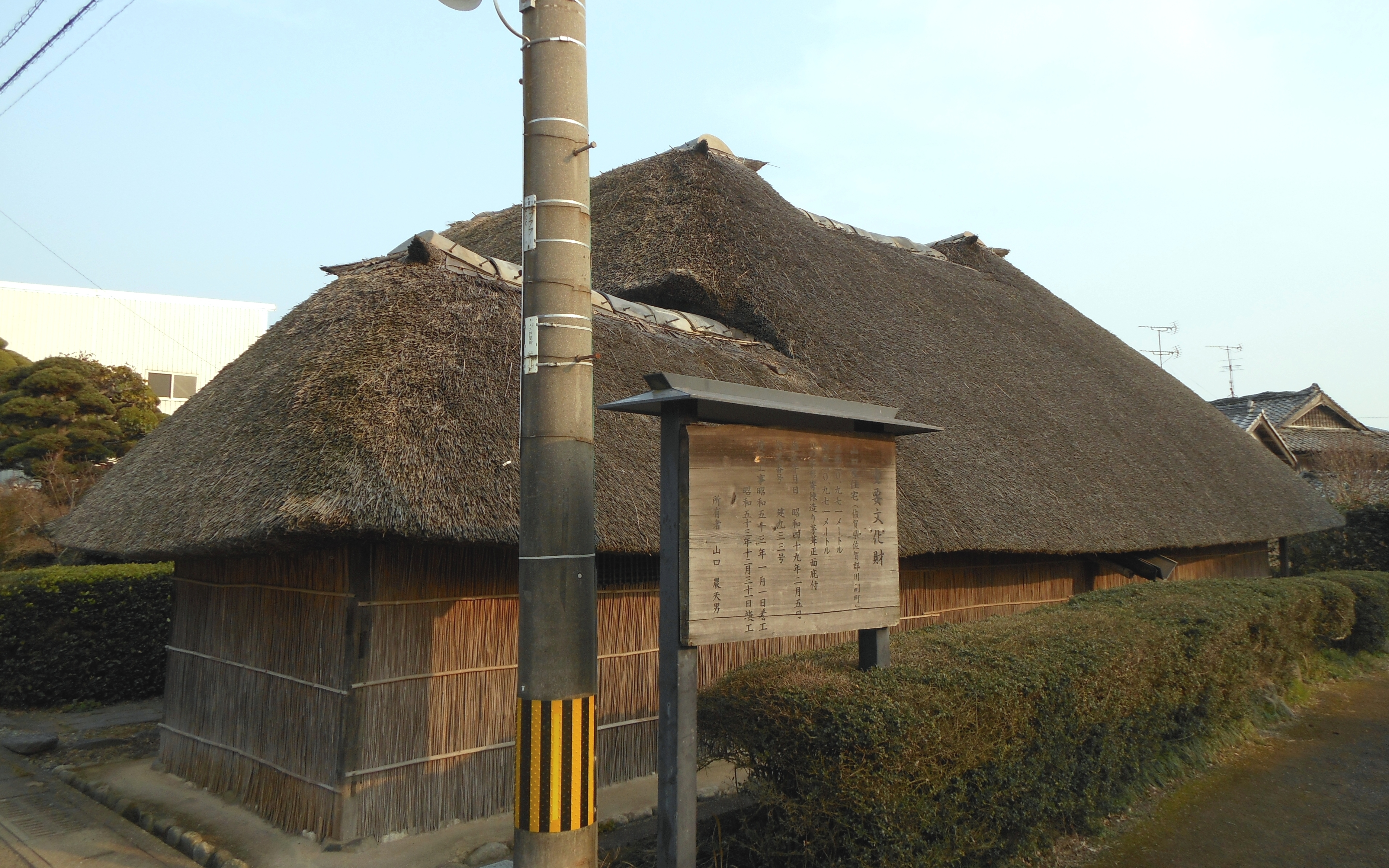 Yamaguchi Family's House, a traditional farmer house built in 19th century in Ōdakuma, Kawasoe, Saga City. It designated National Important Cultural Property of Japan.